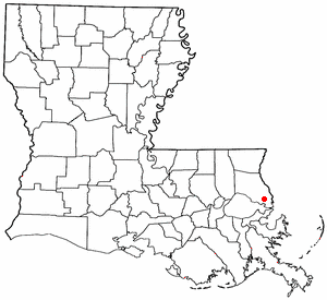 Map showing location of the city of Slidell within the state of Louisiana, USA